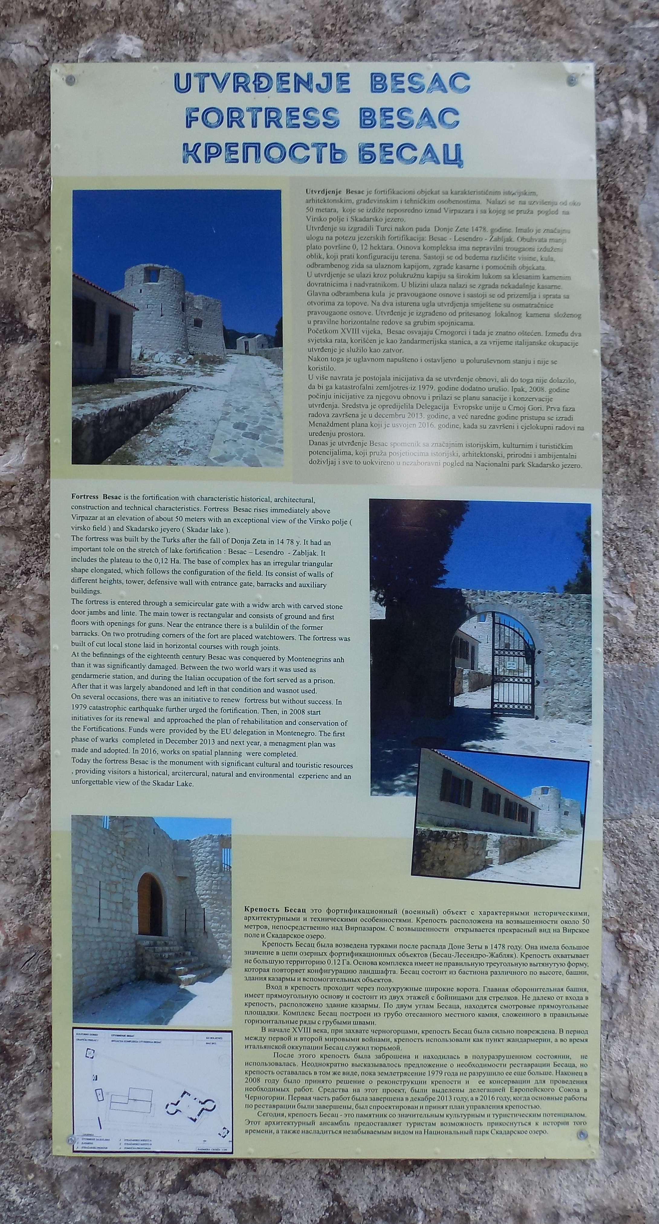 Fort Besac, Virpazar, Montenegro